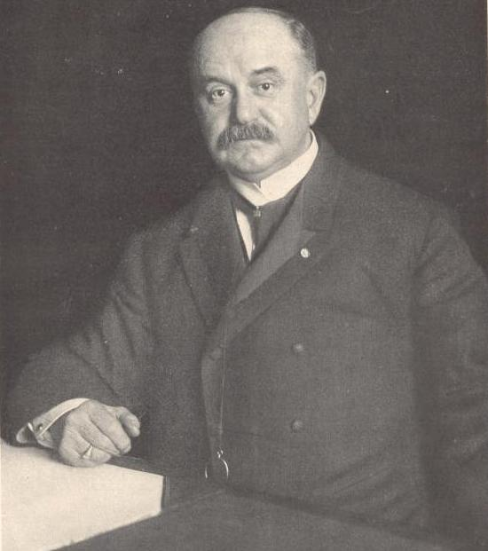 R J Wynne